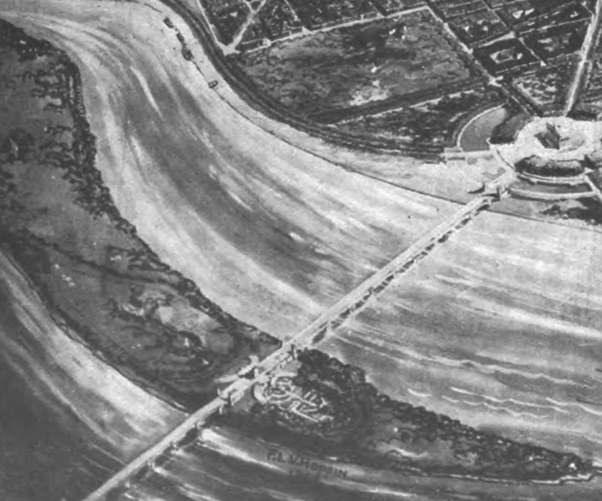 A black-and-white version of a watercolor showing the general position of the proposed Arlington Memorial Bridge across the Potomac River in Washington, D.C., in the United States. The image also shows the location of the proposed Lincoln Memorial, upper right. The bridge extends across the Potomac River to a greatly refigured Columbia Island, and then across teh Boundary Channel to the Virginia shoreline.